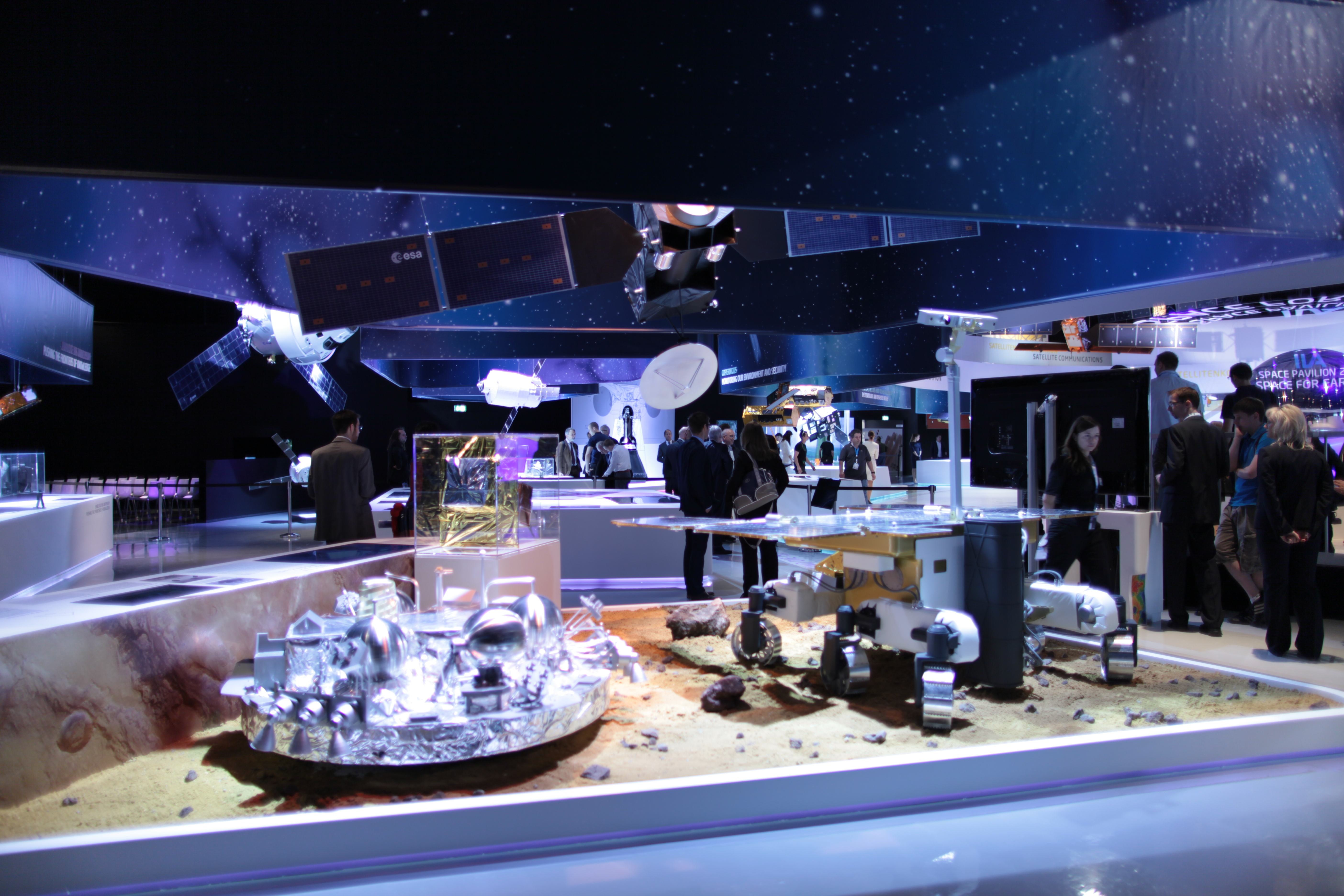 Die Sonde ExoMars wird bei der ESA ESTEC getestet / The ExoMars entry, descent and landing demonstrator module being tested at ESA ESTEC. exploration.esa.int/mars/